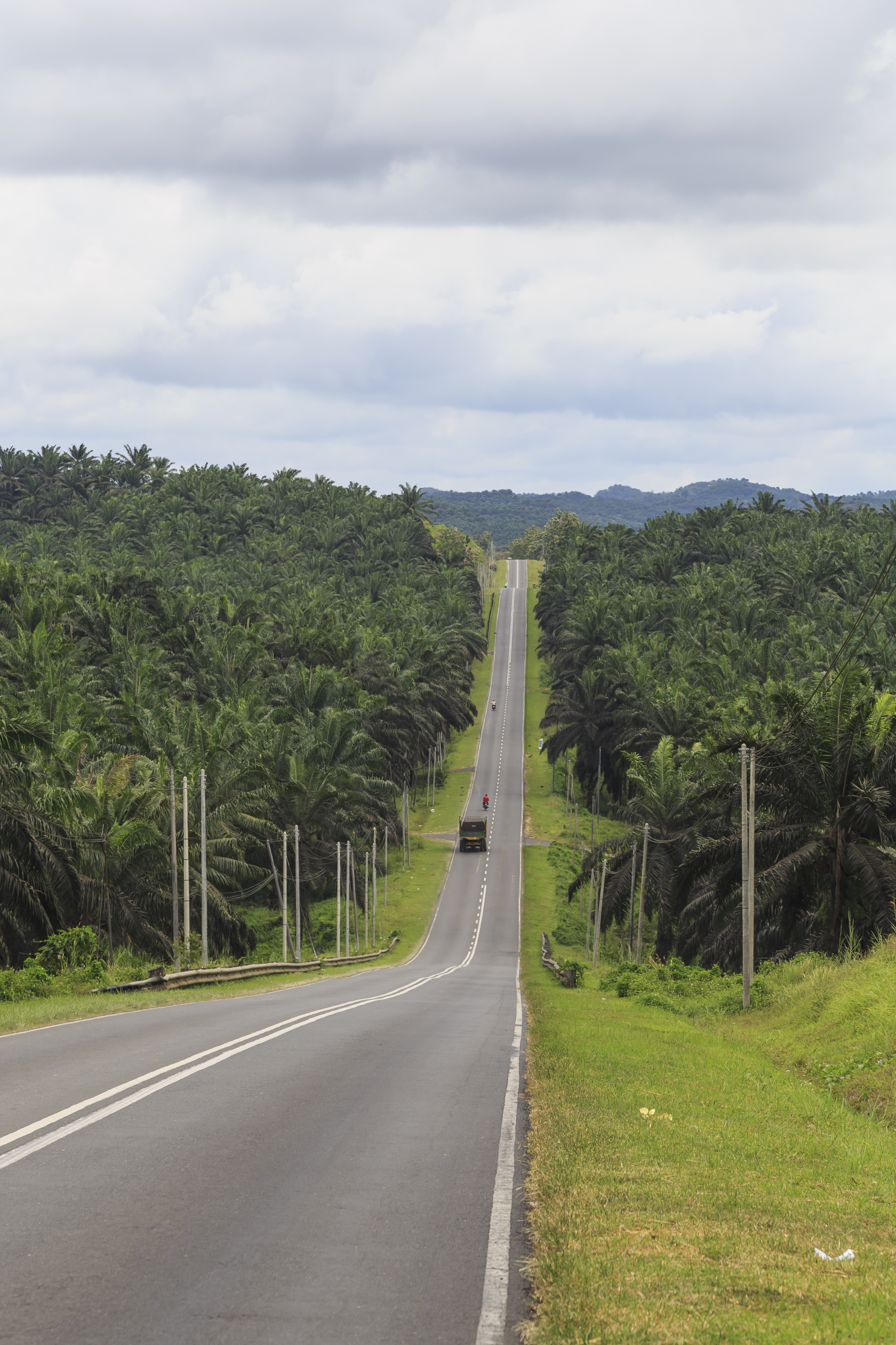 District Lahad Datu, Sabah, Malaysia: Bandar Sahabat Road